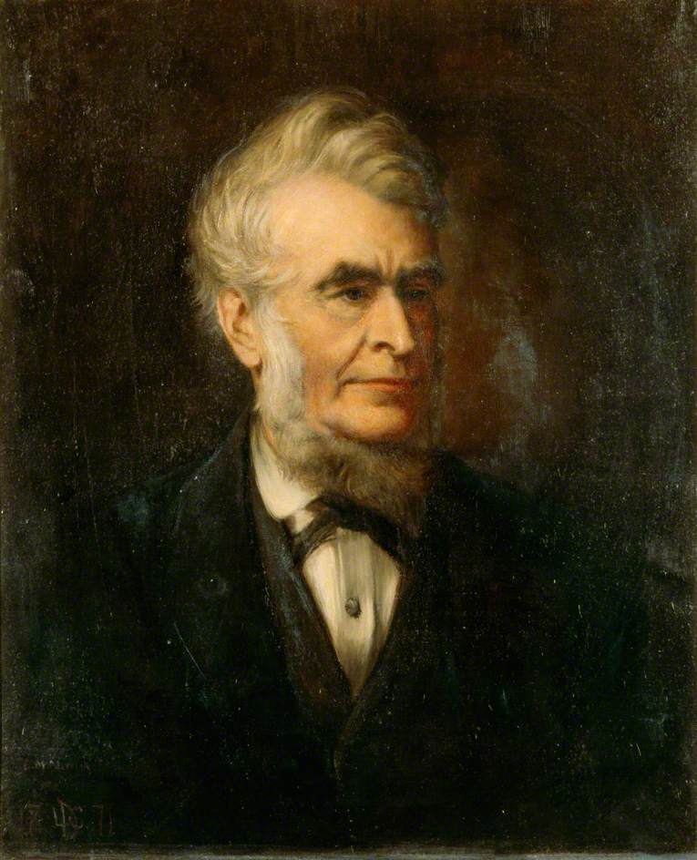 George Bentham (1800 – 1884), Secretary to the Horticultural Society (later Royal Horticultural Society).Royal Botanic Gardens, Kew: Herbarium, Library, Art & Archives